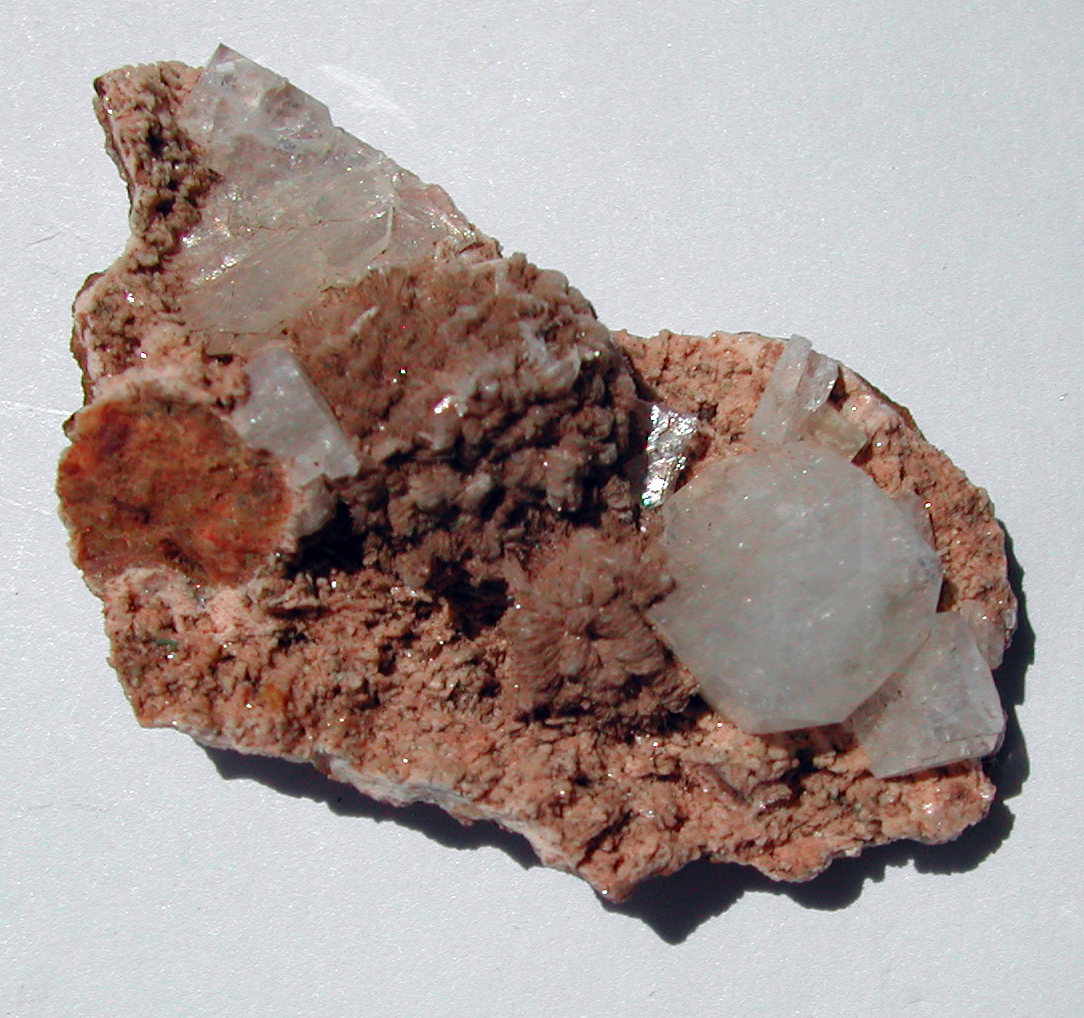 Thomsonite with apophyllite and stilbite from Cap d'Or, Nova Scotia, Canada